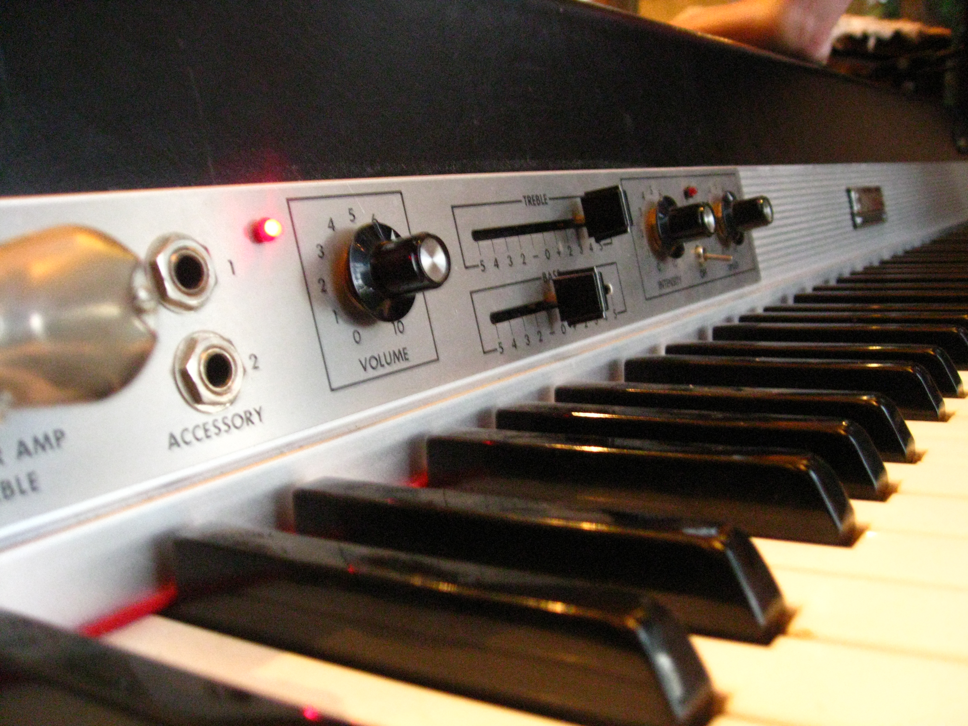 Rhodes MarkI 88 Suitcase piano Supernatural Sound Recording Studio (IMG_6673)